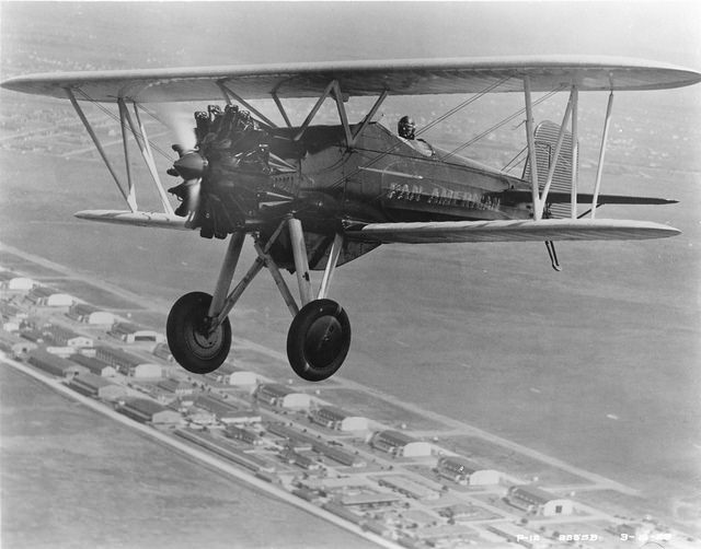 The Ira C. Eaker Boeing P-12 Pan America